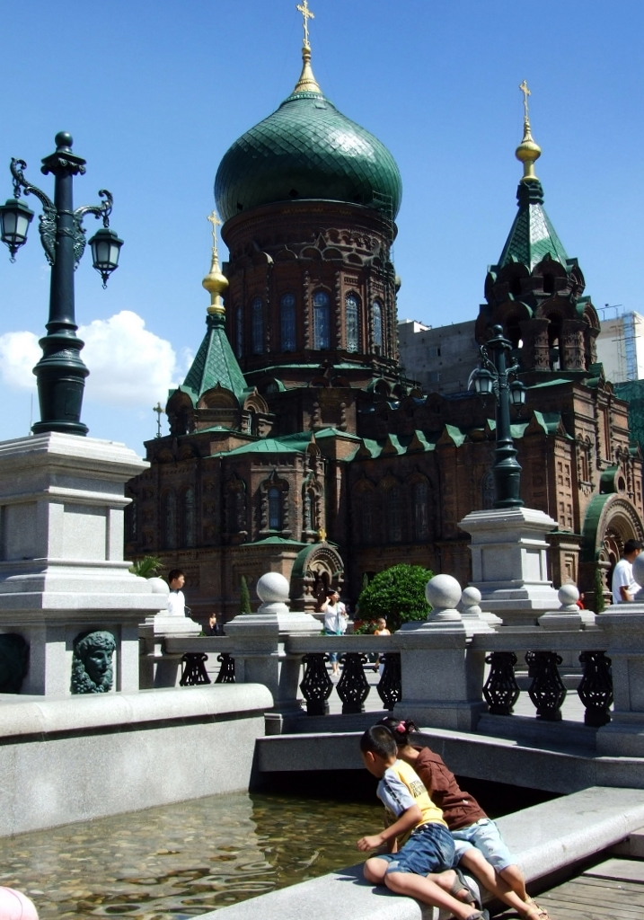 The Cathedral Saint-Sophia in Harbin (Hagia Sophia in harbin)